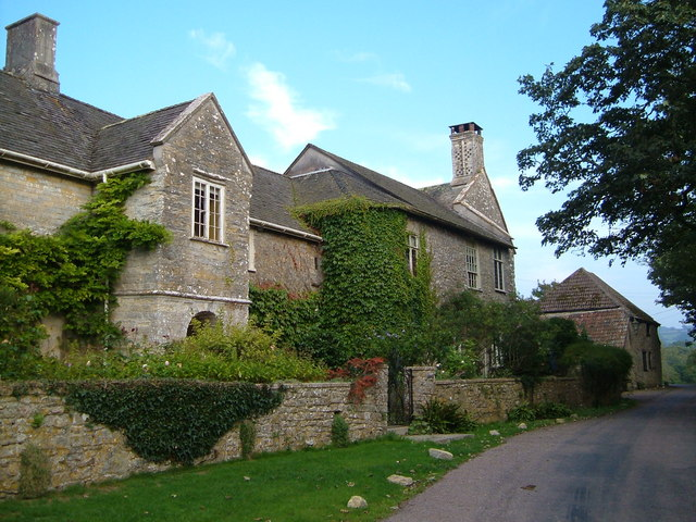 Weycroft Manor. A "remodelled outbuilding" of a much older building occupied from the C15. On Lodge Lane, a short distance up a hill from the Fosse Way crossing of the River Axe.